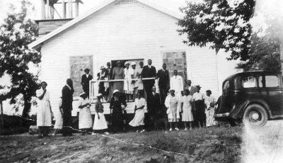 Local call number: Rc04430 Title: [Congregation at the Bethlehem Missionary Baptist Church : Belair, Florida] [graphic] Publication info: 19--. Physical descrip: 1 photoprint : b&w ; 8 x 10 in. Series Title: (Reference collection) General Note: Founded in 1851 with Reverend James Page, Florida's first black minister. Built in 1937. General Note: Identified in the picture are (on porch L-R): 1. Herbert McKinnon, 3. Turner Hawkins, 4. Suwannee Lewis, 8. Reverend W.S. Lewis. Front row: 5. Eliza Blake, 9. Hattie Floyd, 12. Charity Shaw.